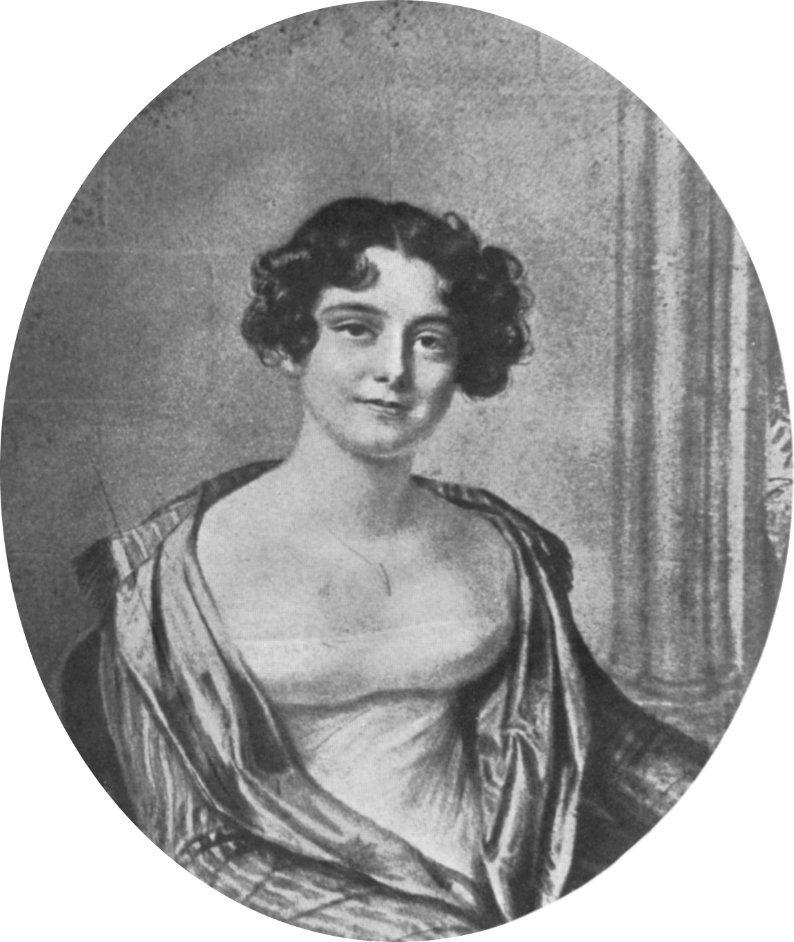 Jane Griffin, aged 24. Later Lady Jane Franklin. Lithograph by Joseph Mathias Negelen (18 Jun 1792 - 11 Jun 1870), after 1816 chalk drawing by Amelie Romilly (21 Mar 1788 - 2 Dec 1875).